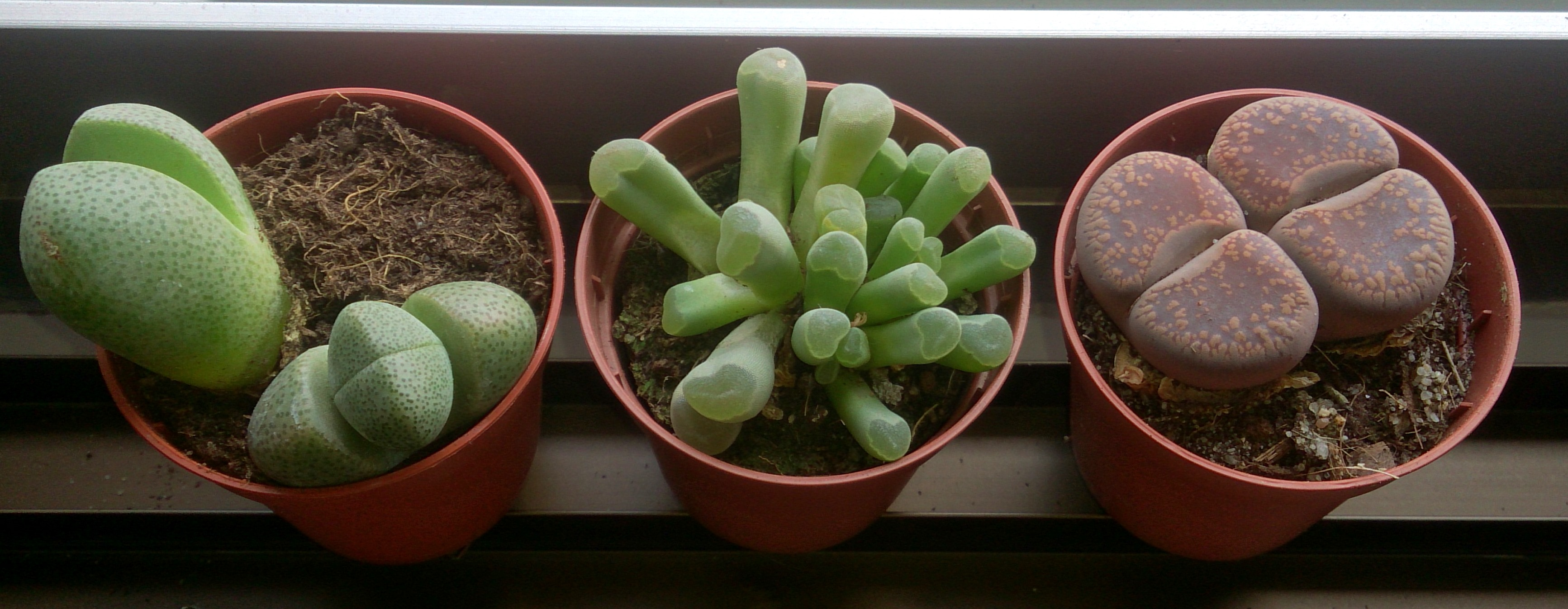 From left to right: Lithops marmorata, Fairy Elephant's Feet (Frithia pulchra), Lithops aucampiae